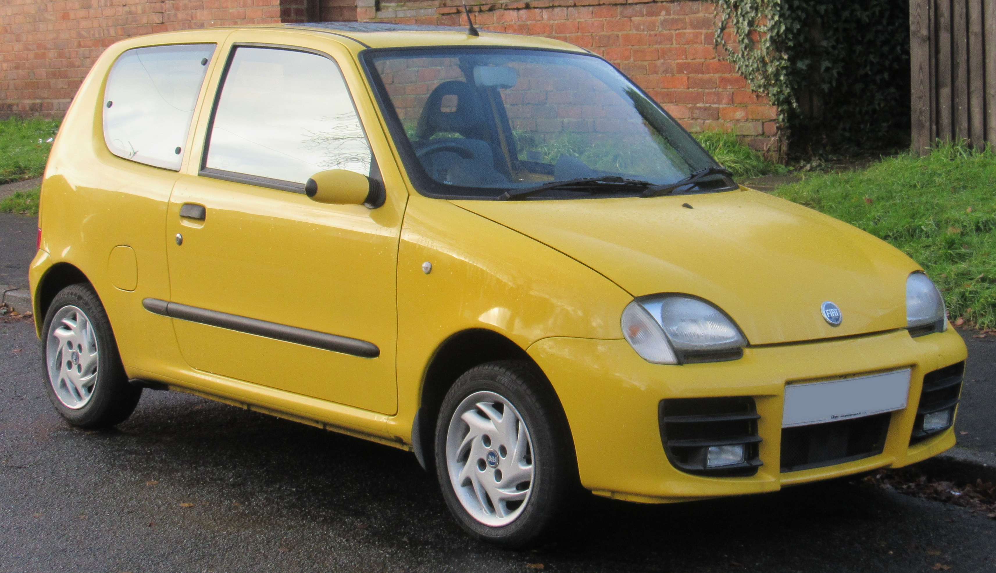 2002 Fiat Seicento Sporting 1.1 Front Taken in Warwick